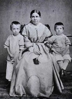 Georgia Maria Luise Skovgaard, née Schouw (1828-1868), Danish embroideress, with her sons Joakim (1856-1933) and Niels Skovgaard (1858-1938)